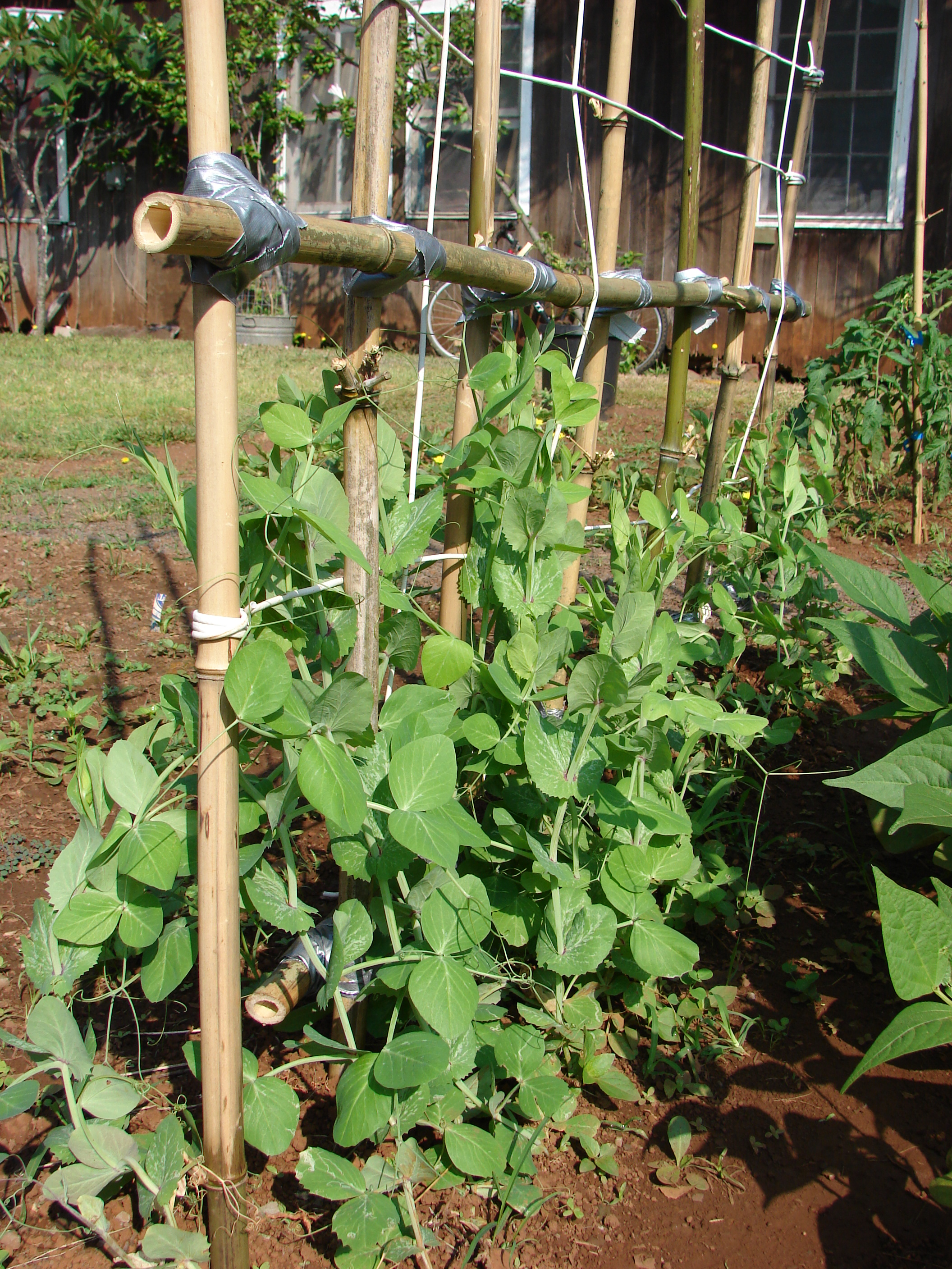 Pisum sativum var. macrocarpum (snow snap peas in garden). Location: Maui, Makawao